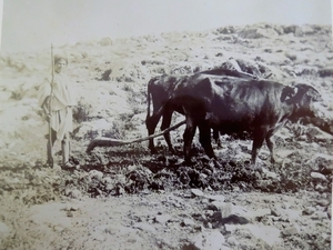 Palestine Plow, 1891. – Original 19th century book in the possession of Kimberly Blaker, New Boston Fine and Rare Books.